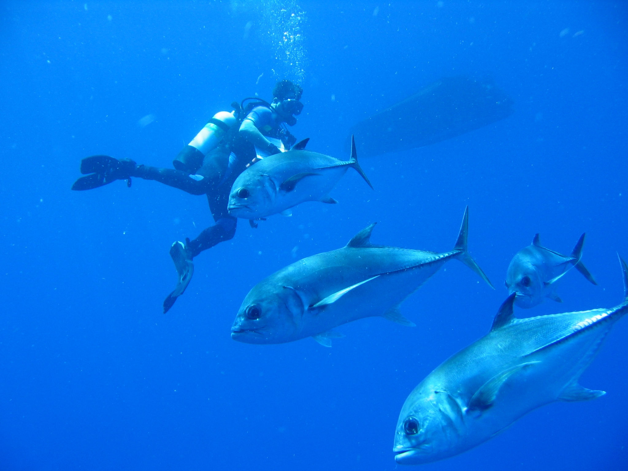 Horse-eye jack with diver. Flower Garden Banks National Marine Sanctuary. 2006 September. Gulf of Mexico.